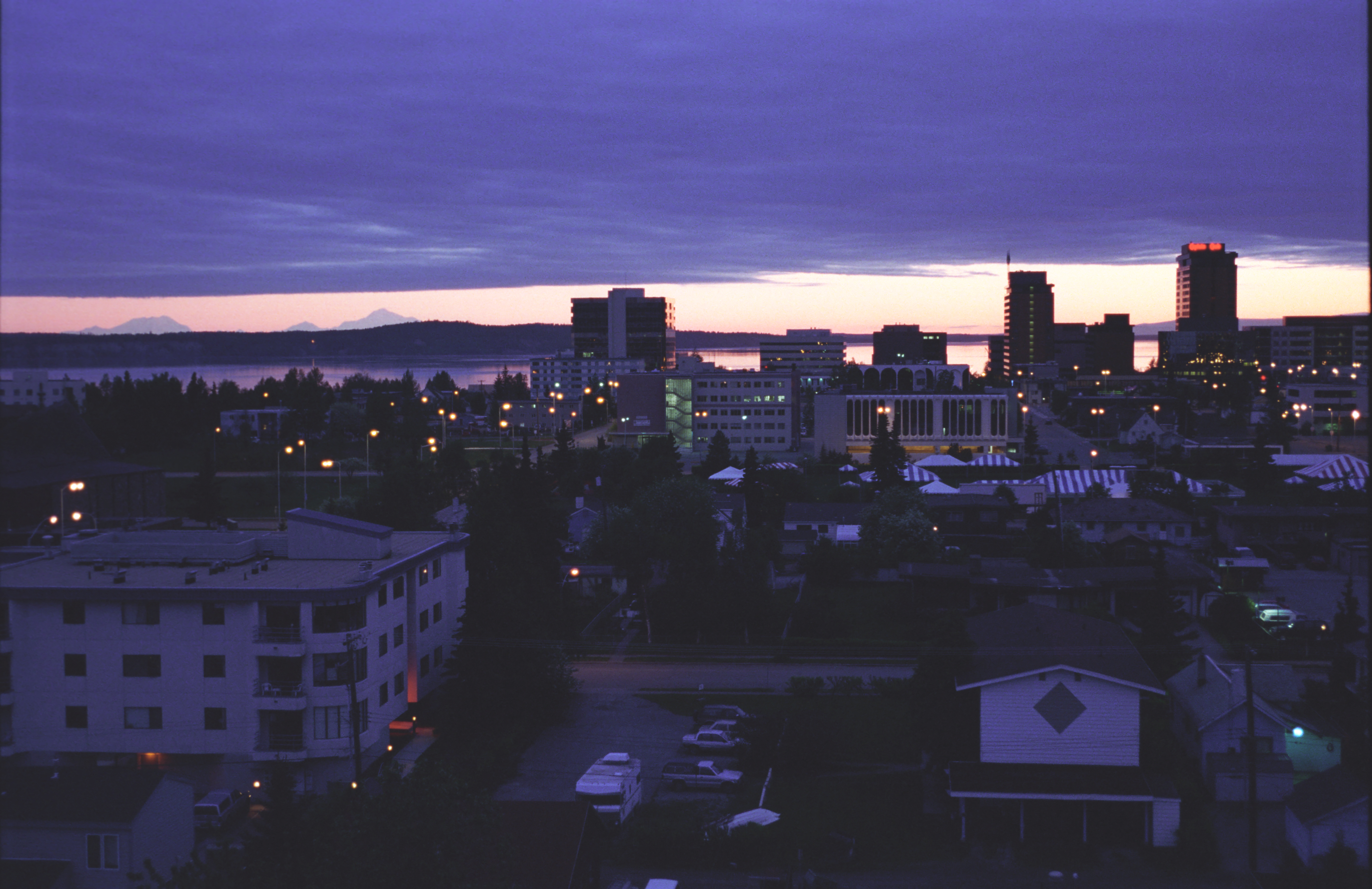 Anchorage, Alaska